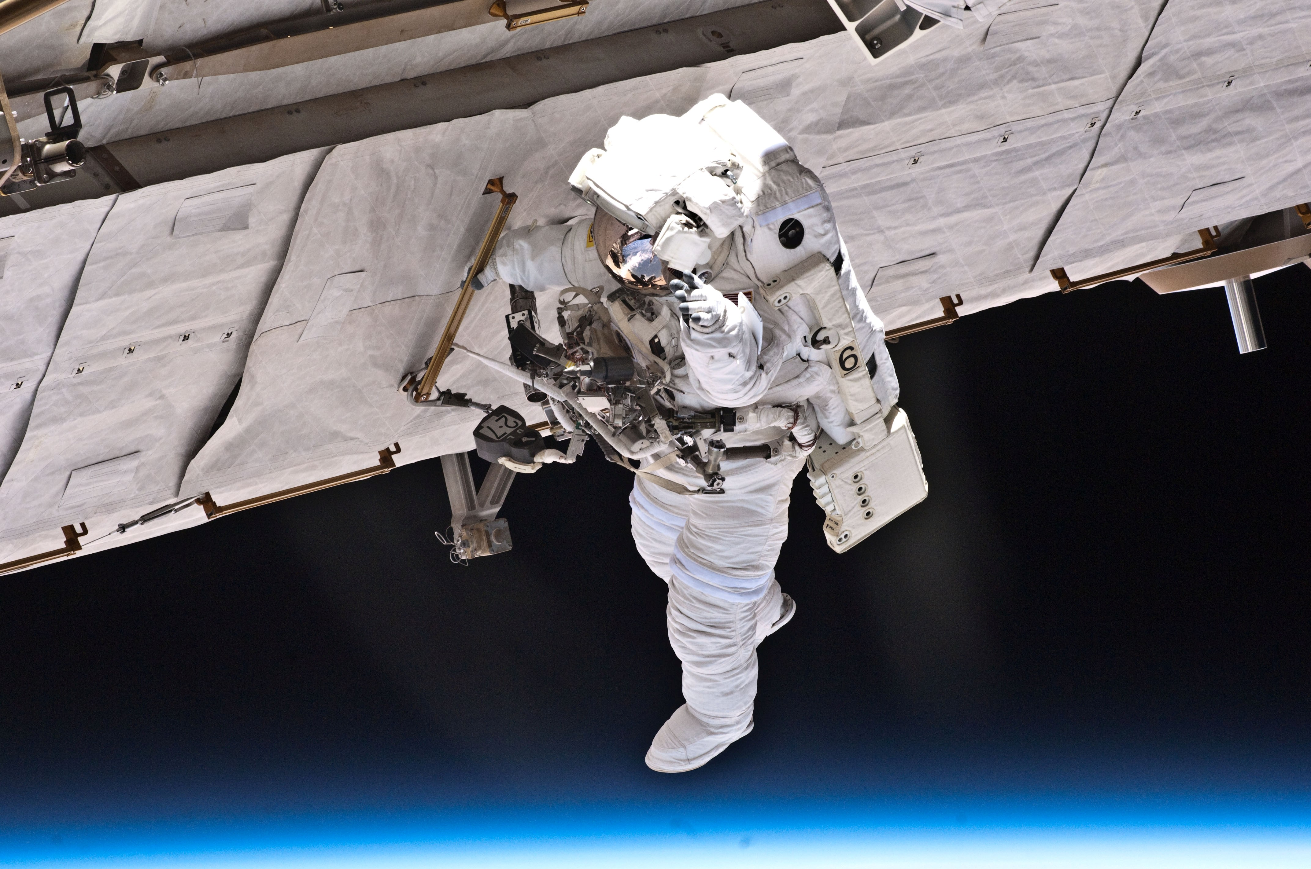 NASA astronaut Garrett Reisman, STS-132 mission specialist, participates in the mission's first session of extravehicular activity (EVA) as construction and maintenance continue on the International Space Station. During the seven-hour, 25-minute spacewalk, Reisman and NASA astronaut Steve Bowen (out of frame), mission specialist, loosened bolts holding six replacement batteries, installed a second antenna for high-speed Ku-band transmissions and adding a spare parts platform to Dextre, a two-armed extension for the station's robotic arm.